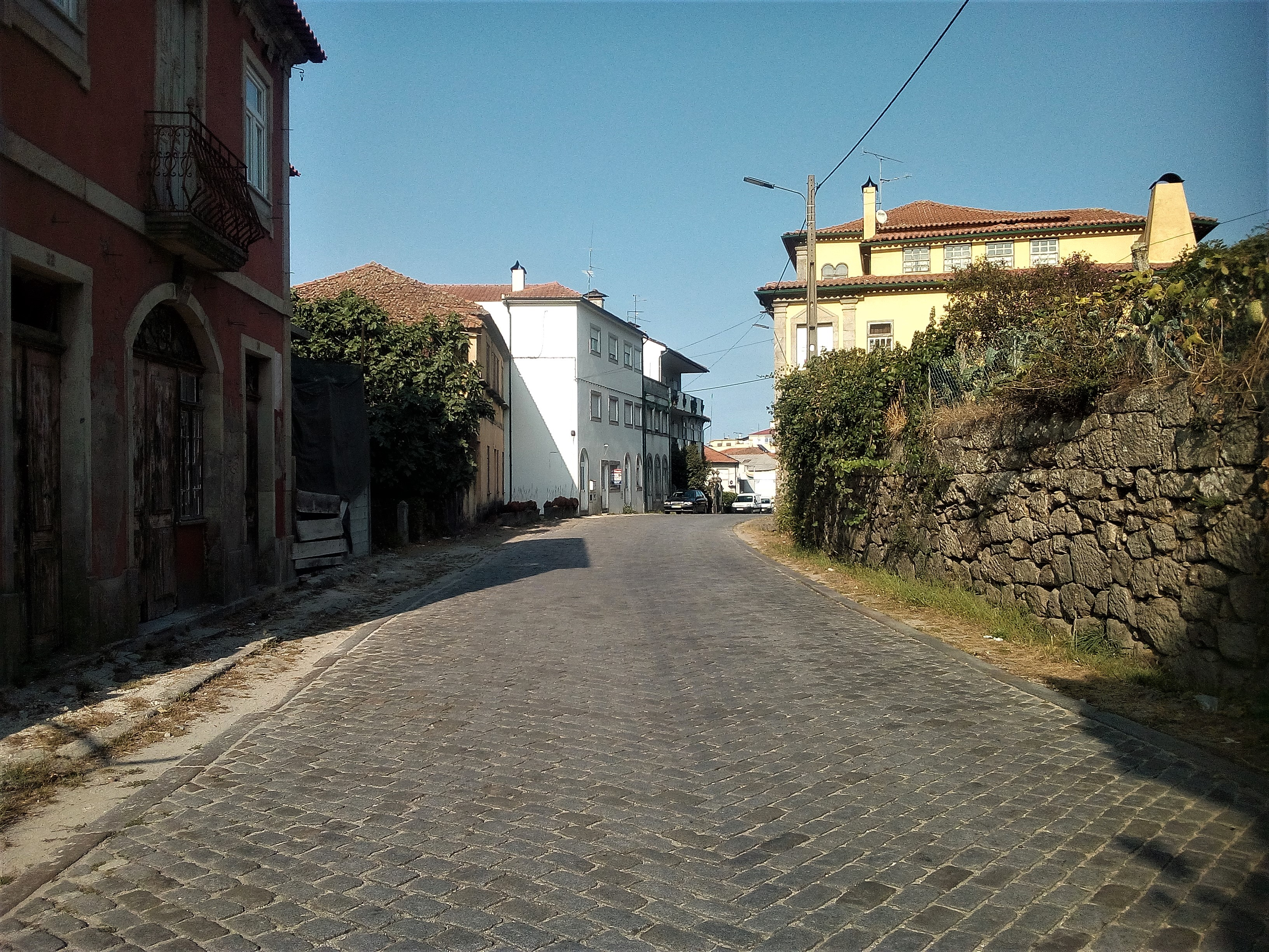 EN 16 road in Oliveira de Frades, Viseu district, Portugal